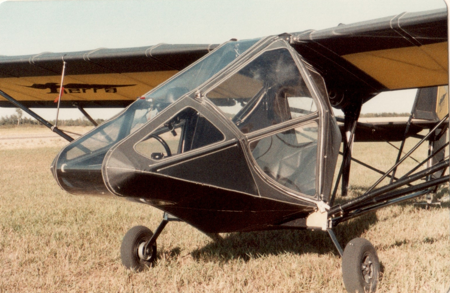 Teratorn Tierra II belonging to Free Spirit Ultralights, at St Albert Air Park, Alberta, Canada